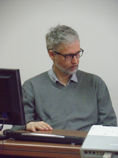 Prof. Aleksandar Prnjat, Belgrade, Serbia